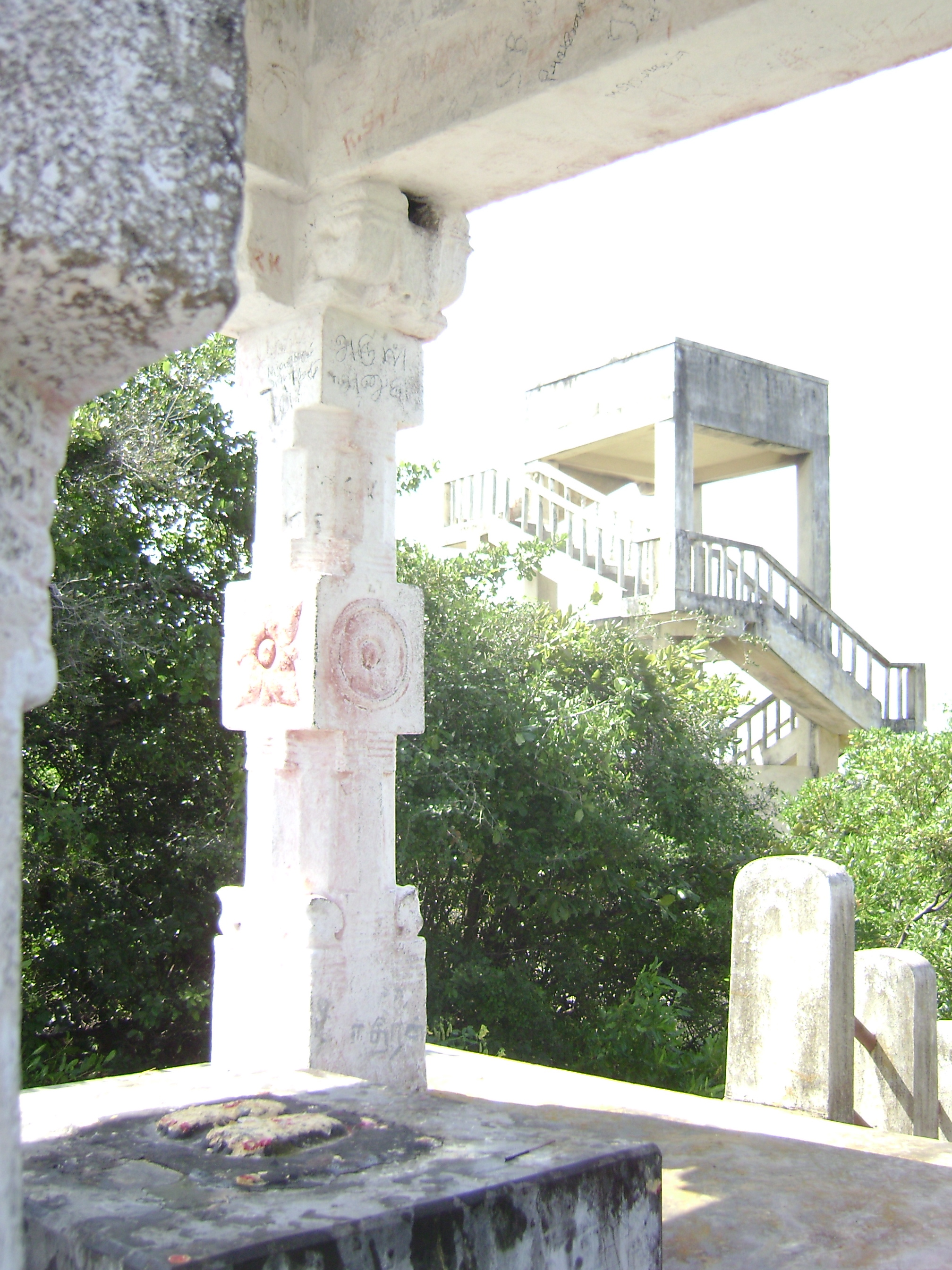 Point Calimere Wildlife and Bird Sanctuary, Observation tower at Ramar Padam, shrine of Rama's footprint